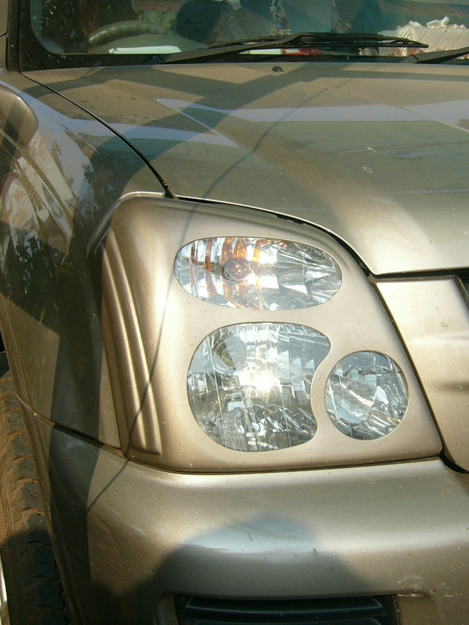 Isuzu Dmax: aperture of the headlamp.